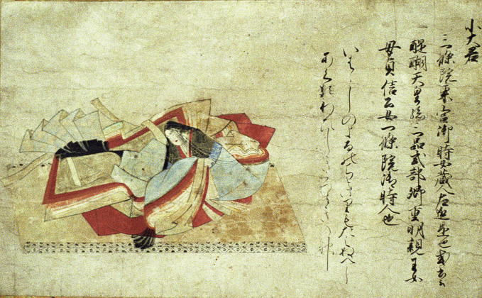 Kodai no Kimi, Potrait, A flagment of 36 poets scroll, colour on paper, mounted to hanging scroll, about 30cm height, Kamakura Period, Japan, Tokyo National Museum